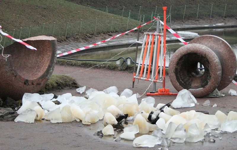 A porphyry vase in the Summer Garden, Saint Petersburg (after destruction)